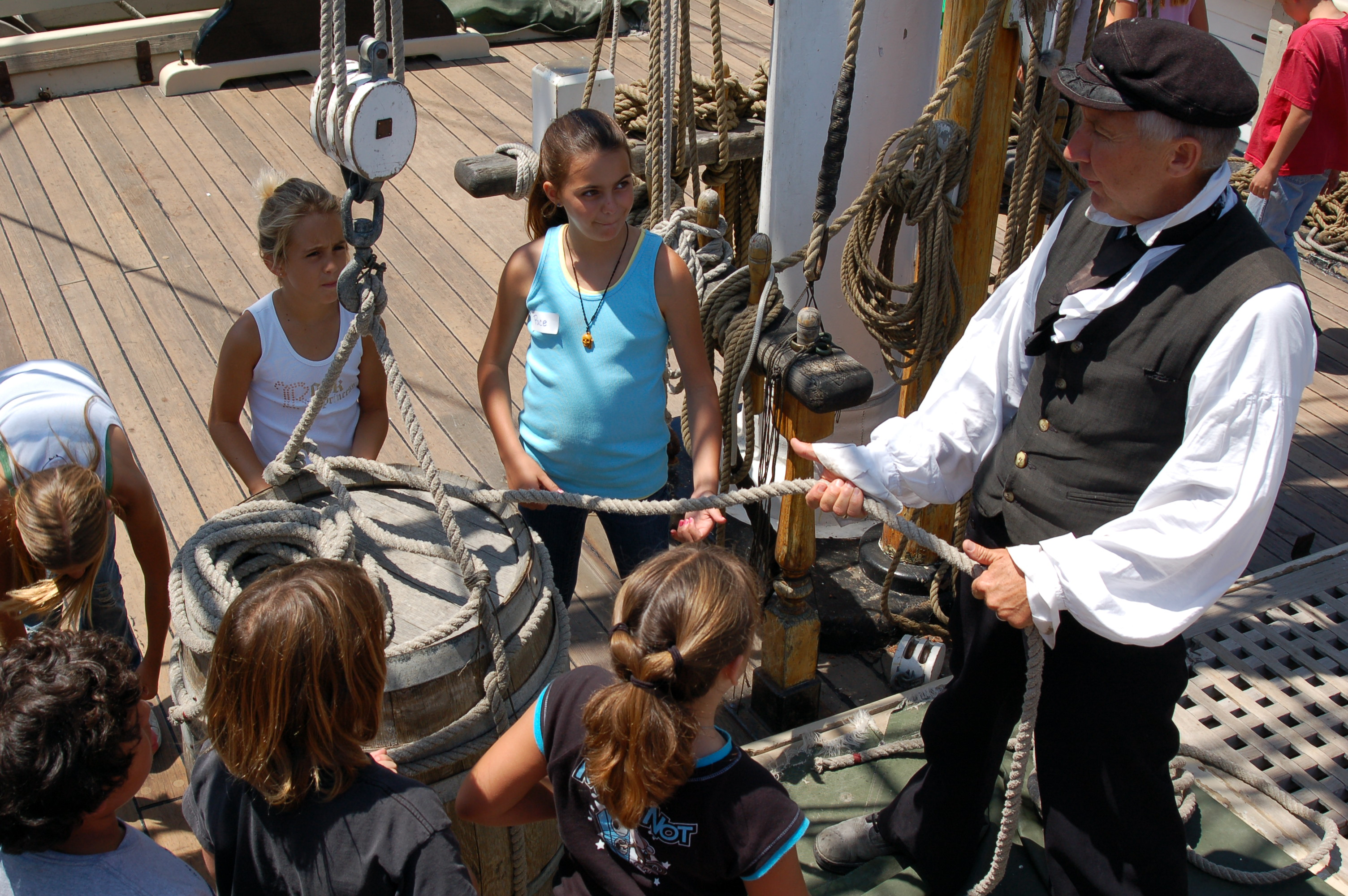 School children participate in a maritime history program onboard the tall ship Pilgrim at the Ocean Institute in Dana Point, California.